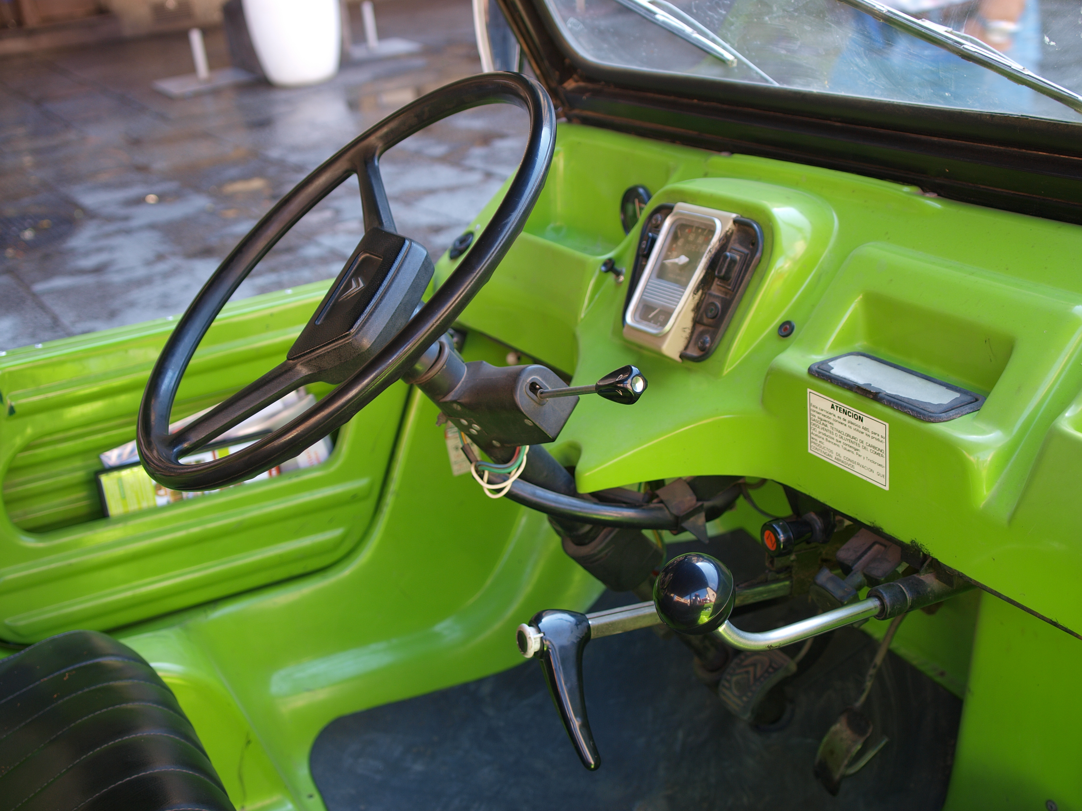 Driving post of a Citroën Mehari, at exhibition in Zamora (Spain), 2012